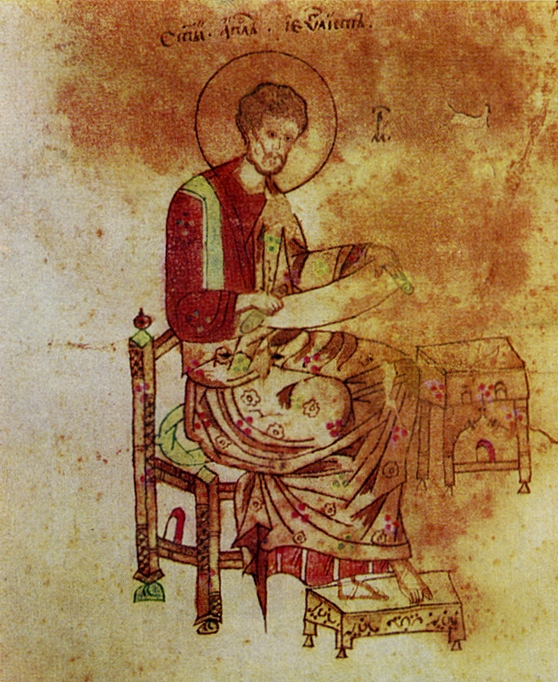 Mark the Evangelist, miniature, Gospel book, Bulgarian Academy of Sciences 15 and NAM